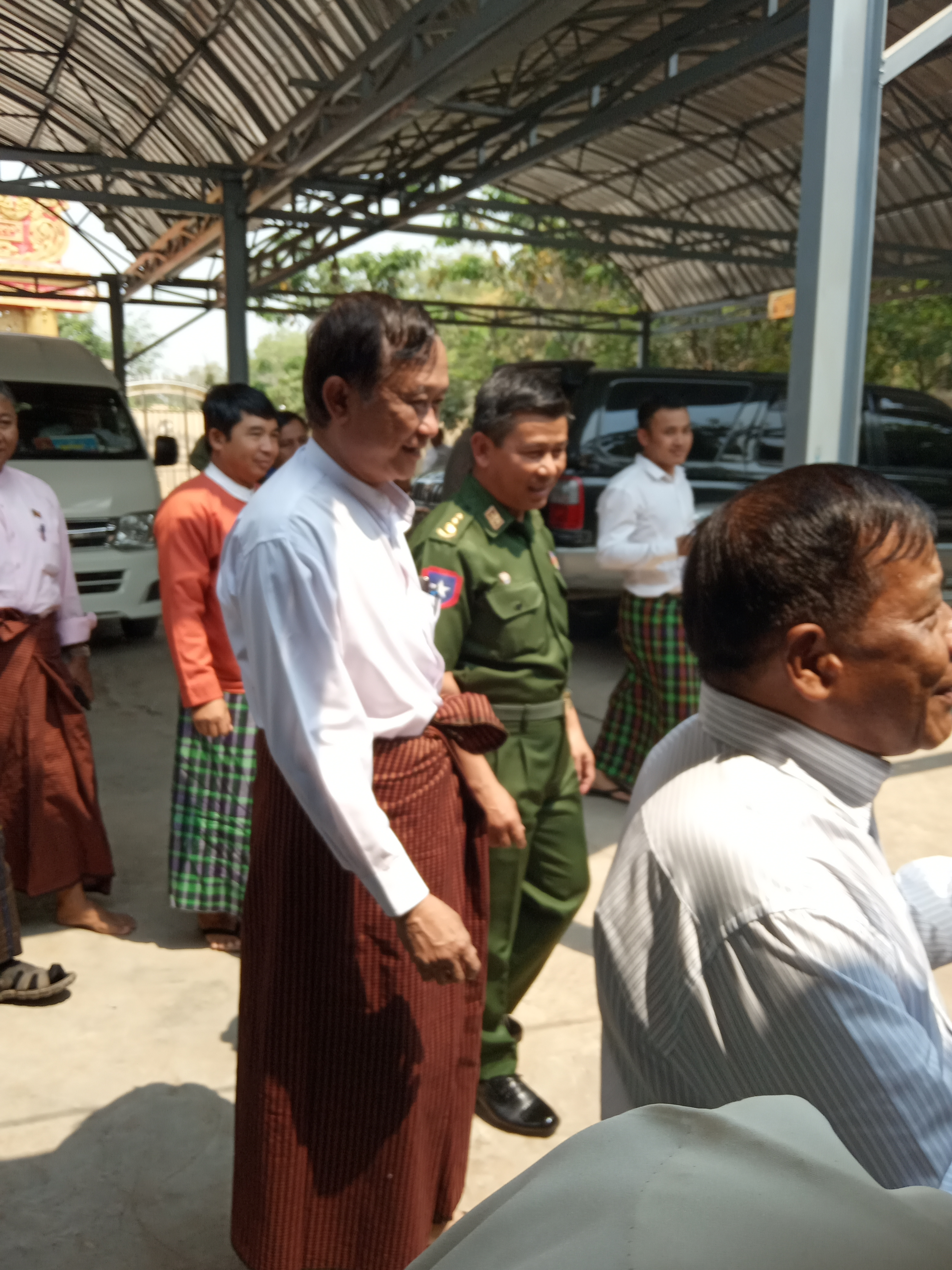 The cabinet members of Mandalay Region Govetnment including CM Zaw Myint Maung မြန်မာဘာသာ: မန္တ​လေးတိုင်း​ဒေသကြီးအစိုးရအဖွဲ့ဝင်ဝန်ကြီးအချို့